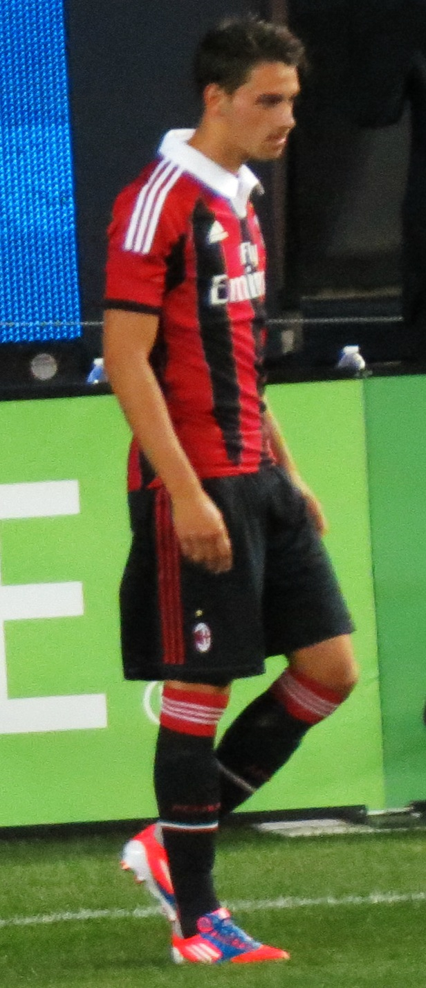 Mattia De Sciglio of A.C. Milan.